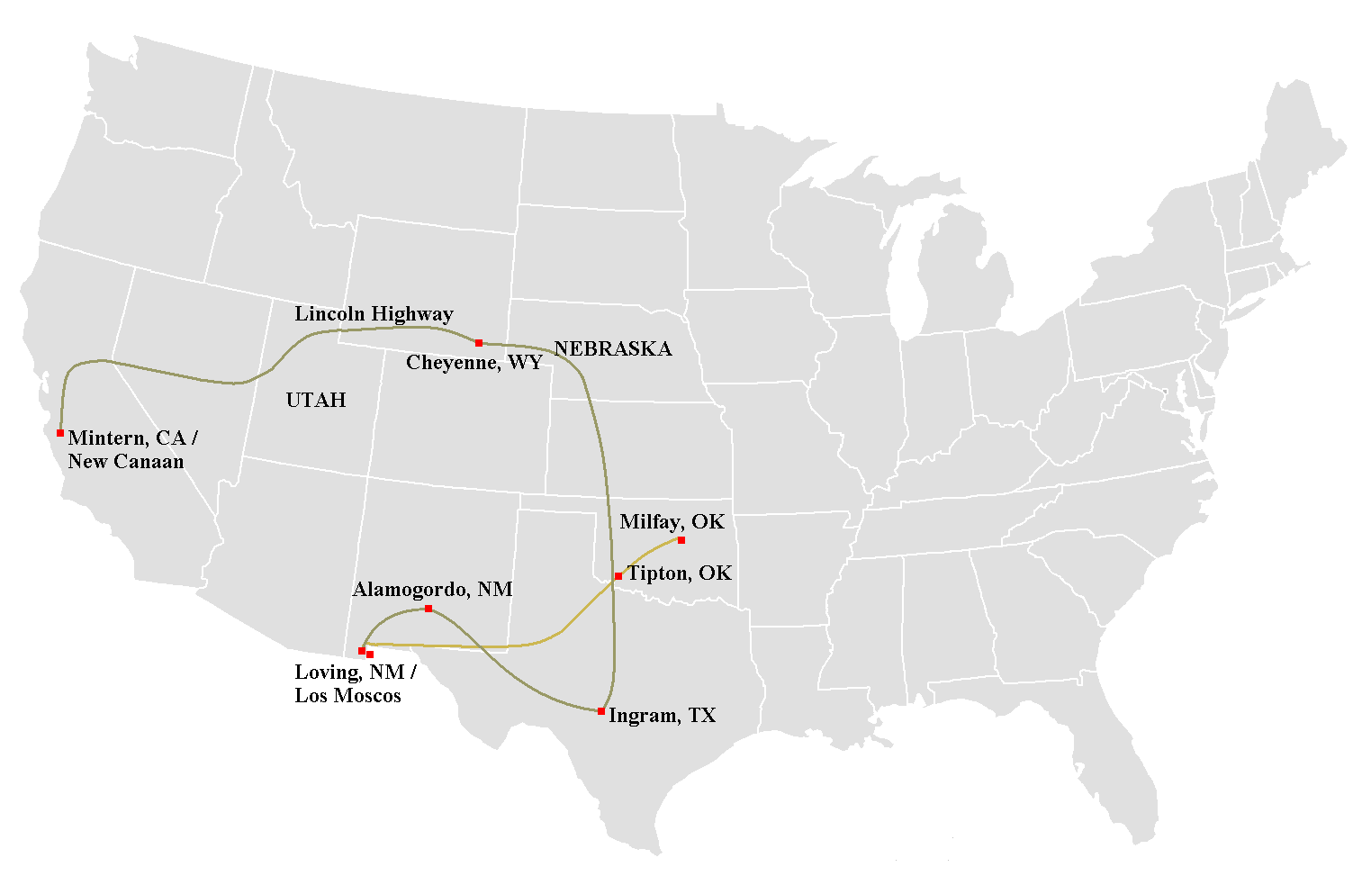 Approximate locations and route of the carnival in the TV series Carnivàle, based on episode titles and information given in episodes (see List of Carnivàle episodes for more details).